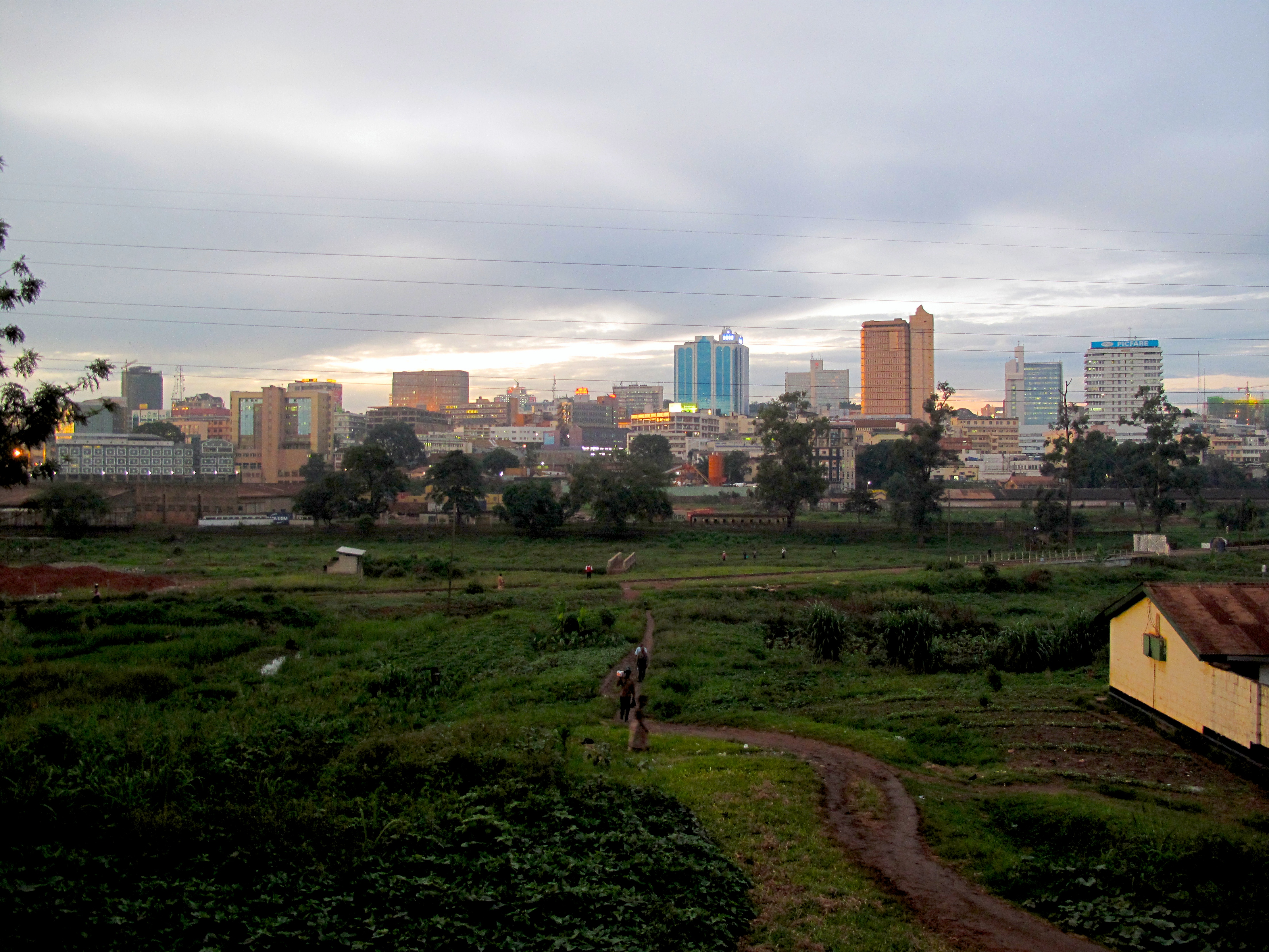 The Kampala skyline across a railyard